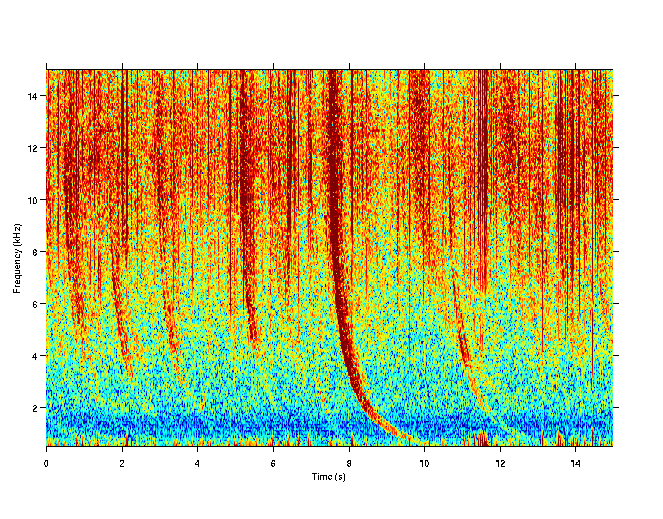 Created by user:drdan14 with Matlab 7.3 from VLF broadband data received at the Palmer Station VLF receiver, operated by Stanford University. Shows several VLF whistler signals amidst a background of sferics.